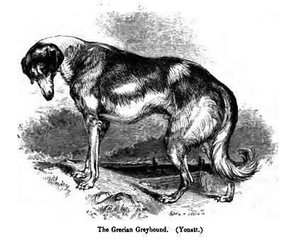 Grecian Greyhound. "This elegant animal is somewhat smaller than the English dog, and the hair is longer and slightly wavy, the tail also being clothed with a thin brush of hair. This is supposed to be the same breed as the Greyhound of Xenophon, the Athenian."